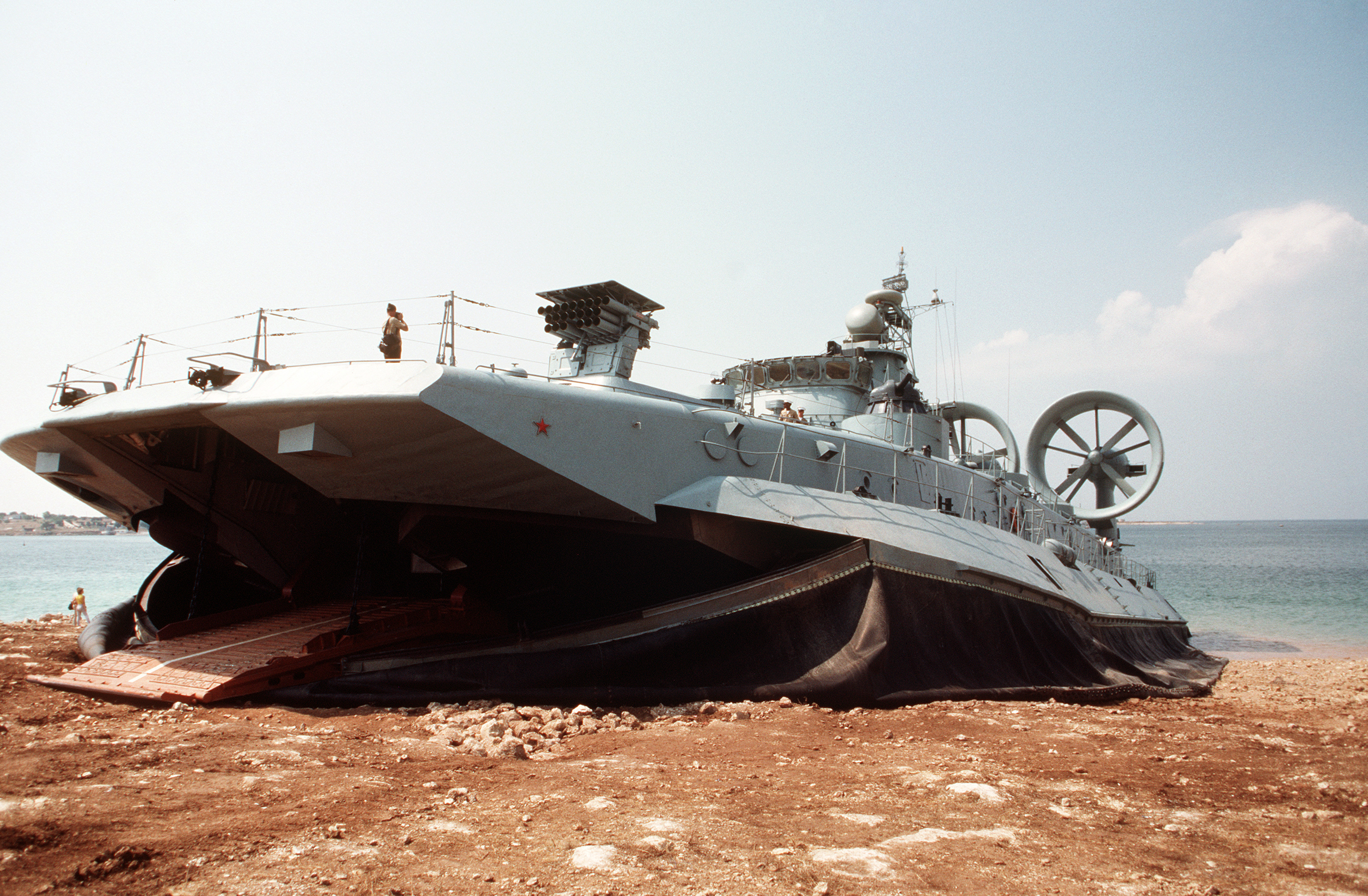 A Sailor stands on the bow of the beached Soviet Pomornik class air cushion landing craft MDK-57 (#567) after a demonstration for visiting Americans. The Aegis guided missile cruiser USS THOMAS S. GATES (CG 51) and the guided missile frigate USS KAUFFMAN (FFG 59) are making the second goodwill visit to a Soviet port by American warships since World War II.